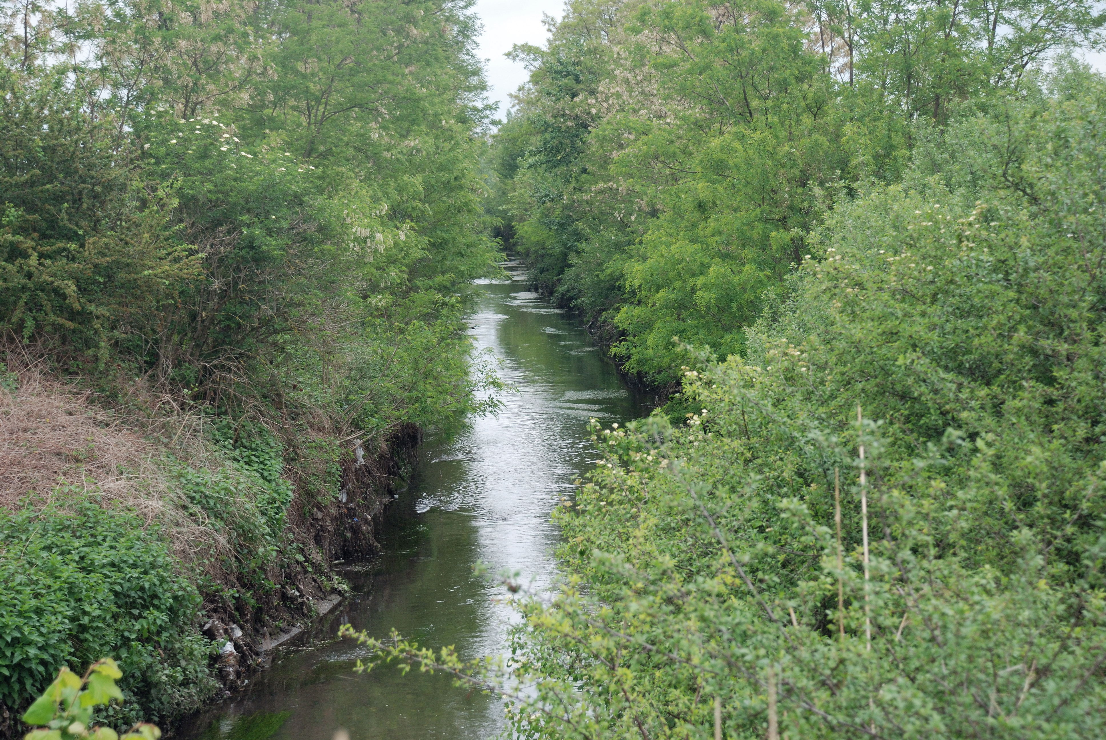 The Bedat river after Gerzat (Puy-de-Dôme, France).